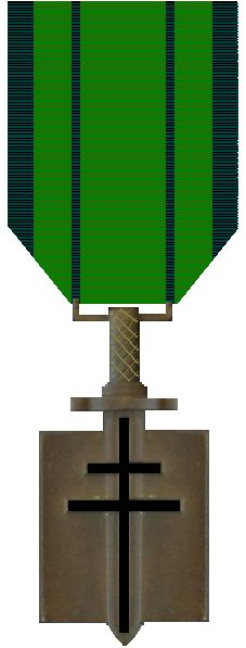 Compagnon de la Libération